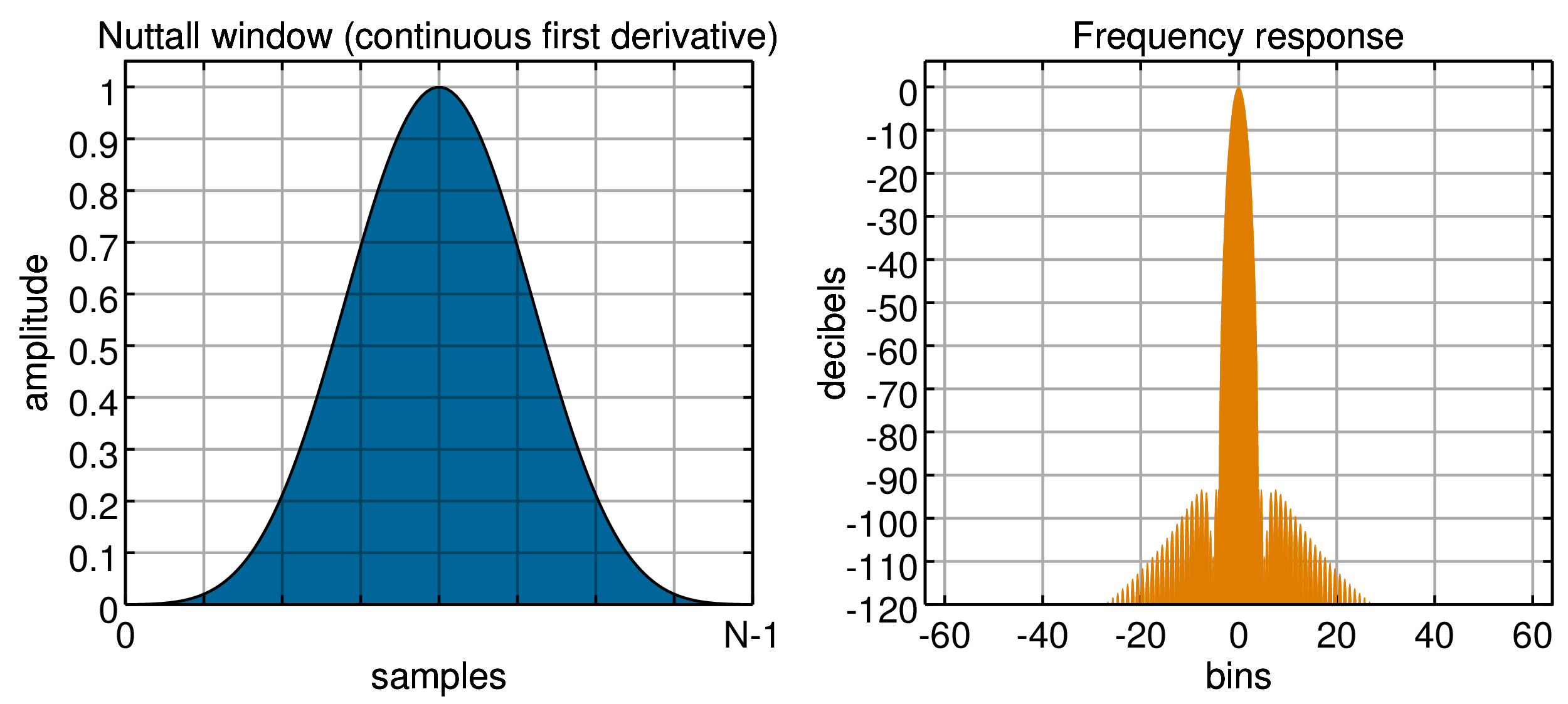 Nuttall window (continuous first derivative) and frequency response